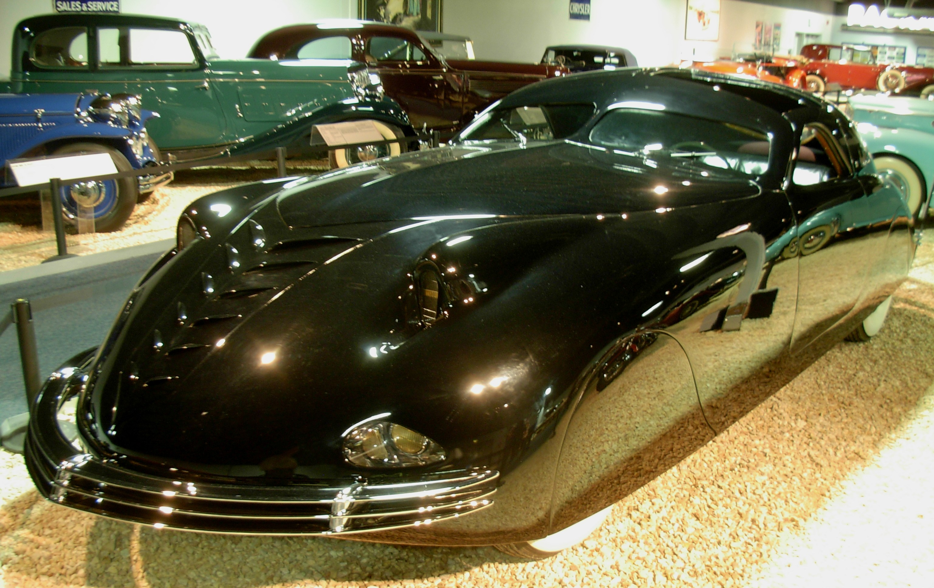 MODEL Experimental Six-Passenger Coupe BUILT BY Rust Heinz Pasadena, California BODY BY Bohman & Schwartz/Heinz PRICE N/A ENGINE Lycoming (Cord) L-Head V-8 Cylinder, 190 H.P. BORE 3-1/12" STROKE 3-3/4" DISPLACEMENT 288.6 Cu. In. This very unusual six-passenger coupe was designed by Rust Heinz, a member of the H. J. Heinz (57 Varieties) family. The design was a joint effort of Heinz and Maurice Schwartz of the custom body firm Bohman & Schwartz in Pasadena, California. Heinz' creation, costing approximately $24,000 in 1938, featured aerodynamic engineering, front-wheel-drive, electric gear shift, four speeds forward and a Cord V-8 Lycoming engine which was modified by Andy Granatelli. Built on a modified Cord 810 chassis, the car's lower frame was made of chrome molybdenum steel and the upper frame was constructed of electrically welded aviation steel tubing. The allow steel and aluminum body had no running boards, fenders or door handles. The doors were opened at the touch of buttons located on the outside and on the instrument panel. The interior was padded throughout with cork and rubber for safety, sound proofing, and insulation. In addition o the normal instruments found in a stock Cord panel there were oil temperature, manifold vacuum and fuel economizer gauges, battery charge level indicator, altimeter, barometer and compass. Four persons sat across the front seat and two in the back seat, facing the rear. Approximate top speed was 115 mph. Heinz planned to put the Phantom Corsair into limited production at an estimated selling price of $12,500. His death, however, shortly after the car was completed, ended those plans. This automobile was featured as the Flying Wombat in the 1938 film, "The Young In Heart," starring Paulette Goddard, Janet Gaynor, Billie Burke and Douglas Fairbanks, Jr.